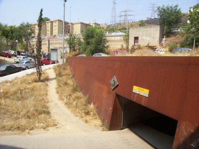 Entrance to the Trinitat Nova metro station, Barcelona